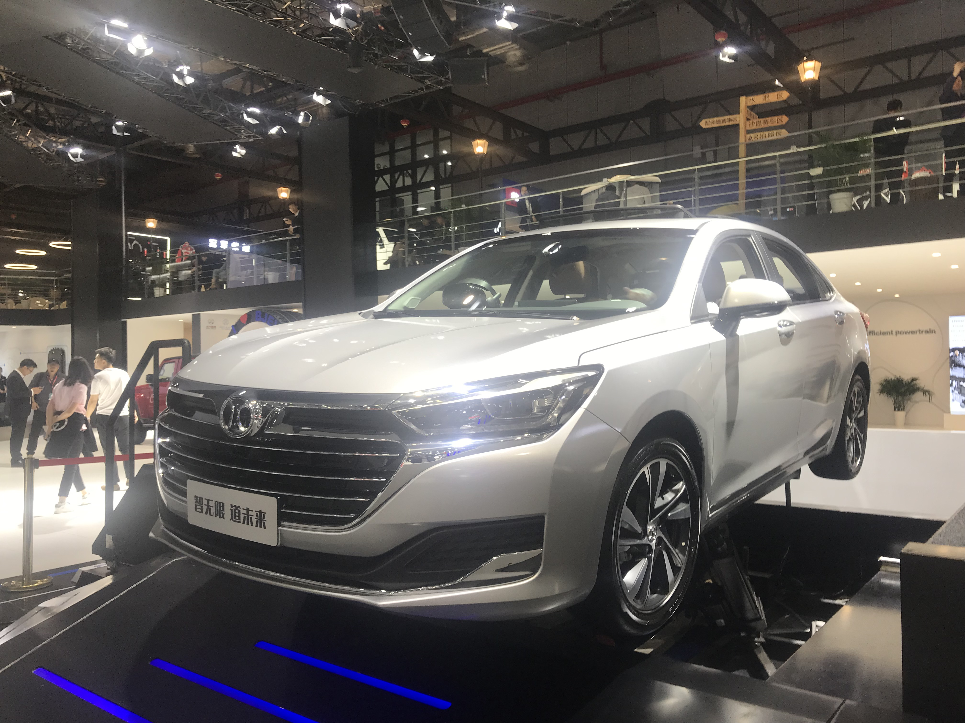 Senova Zhidao (Second generation D70)